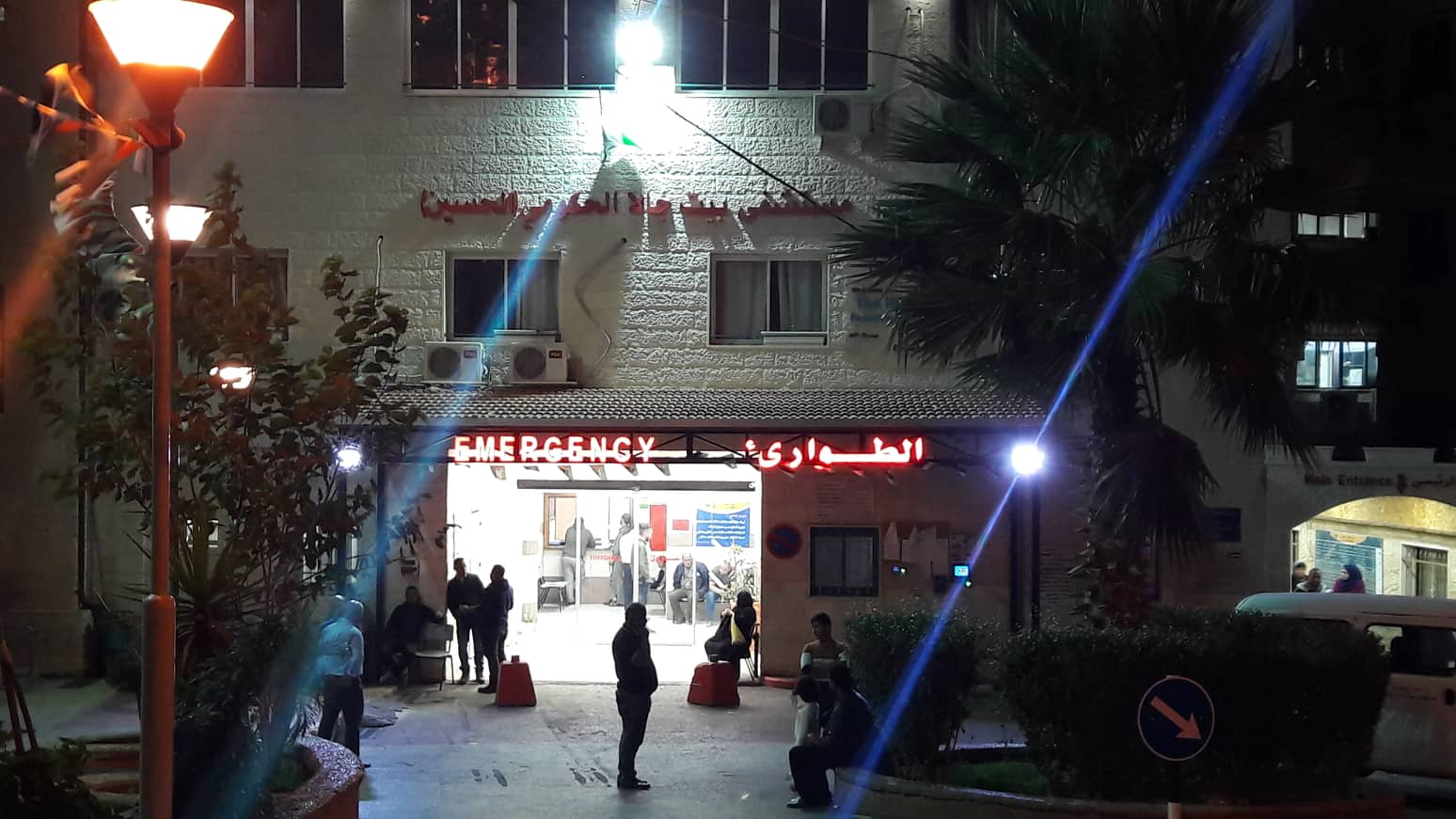 The emergency entrance of Beit Jala Governmental Hospital (Al-Hussein) in the town of Beit Jala.